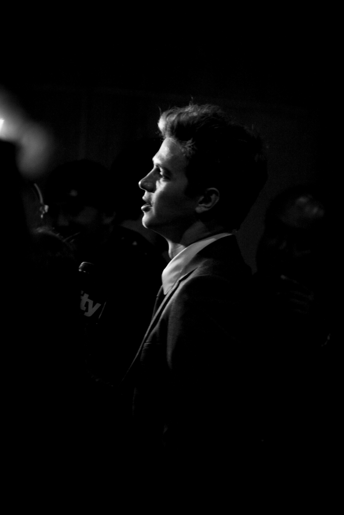 At the premiere of "Vanishing on 7th Street", directed by Brad Anderson, during the Toronto International Film Festival, 2010.